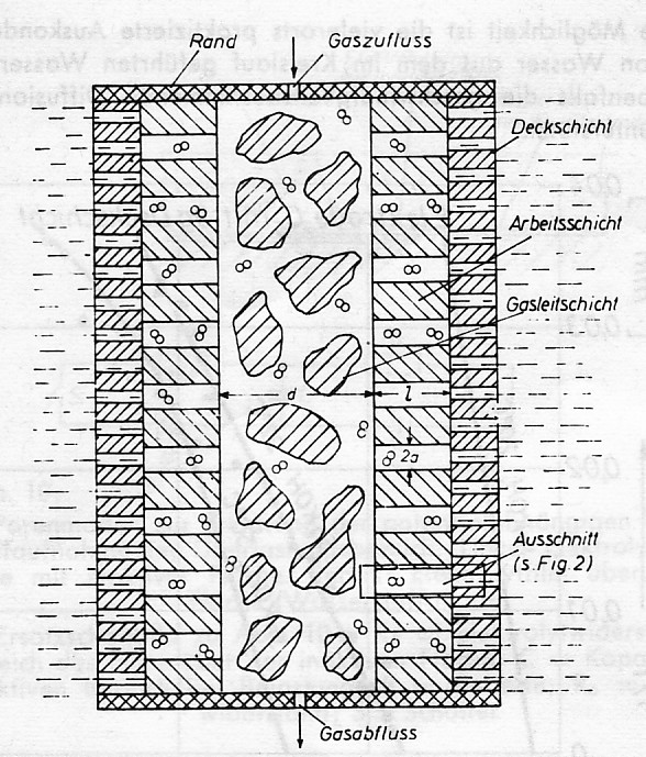 Scematic drawing of an electrode working on both sides